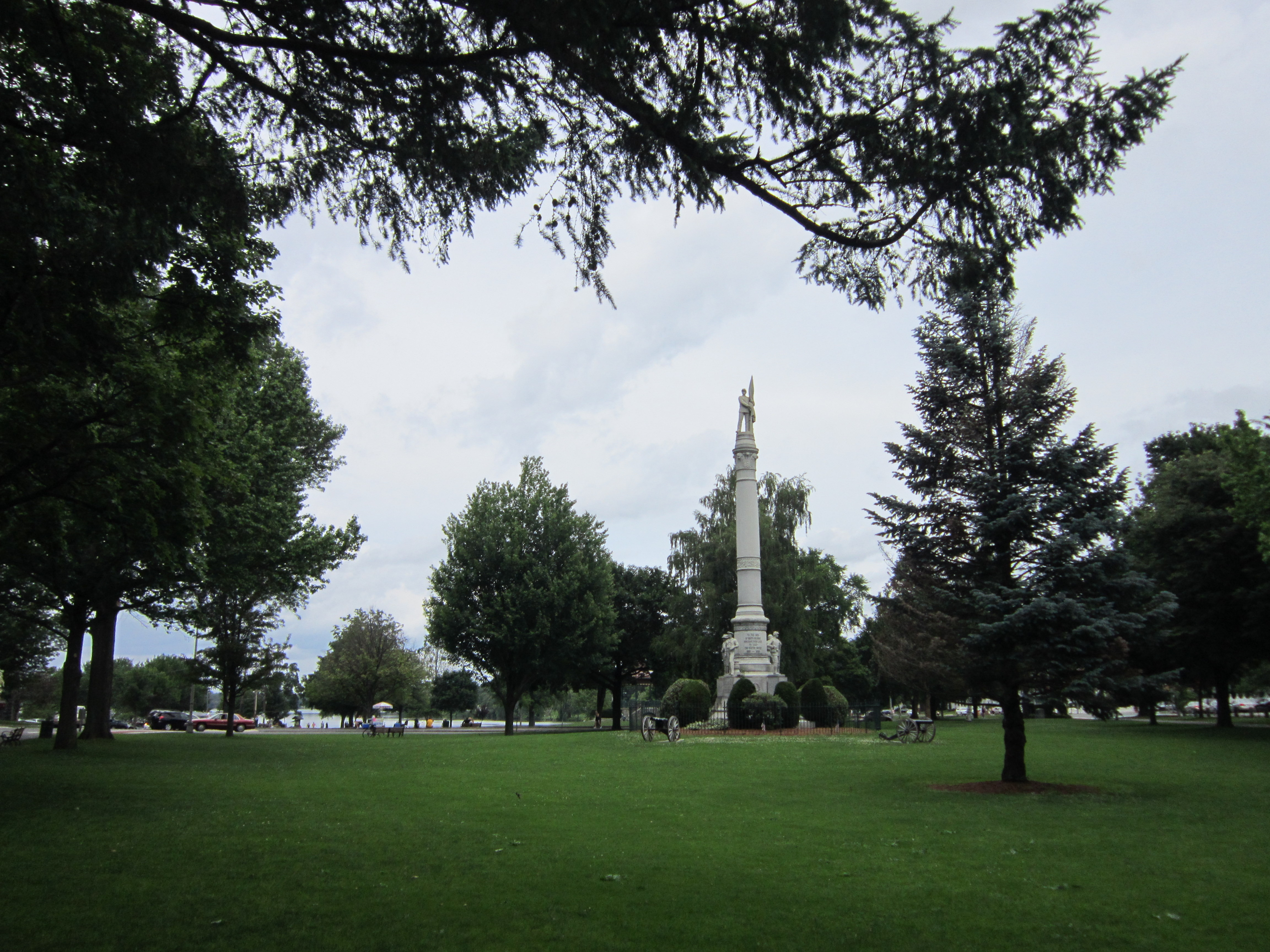 Wakefield, Massachusetts